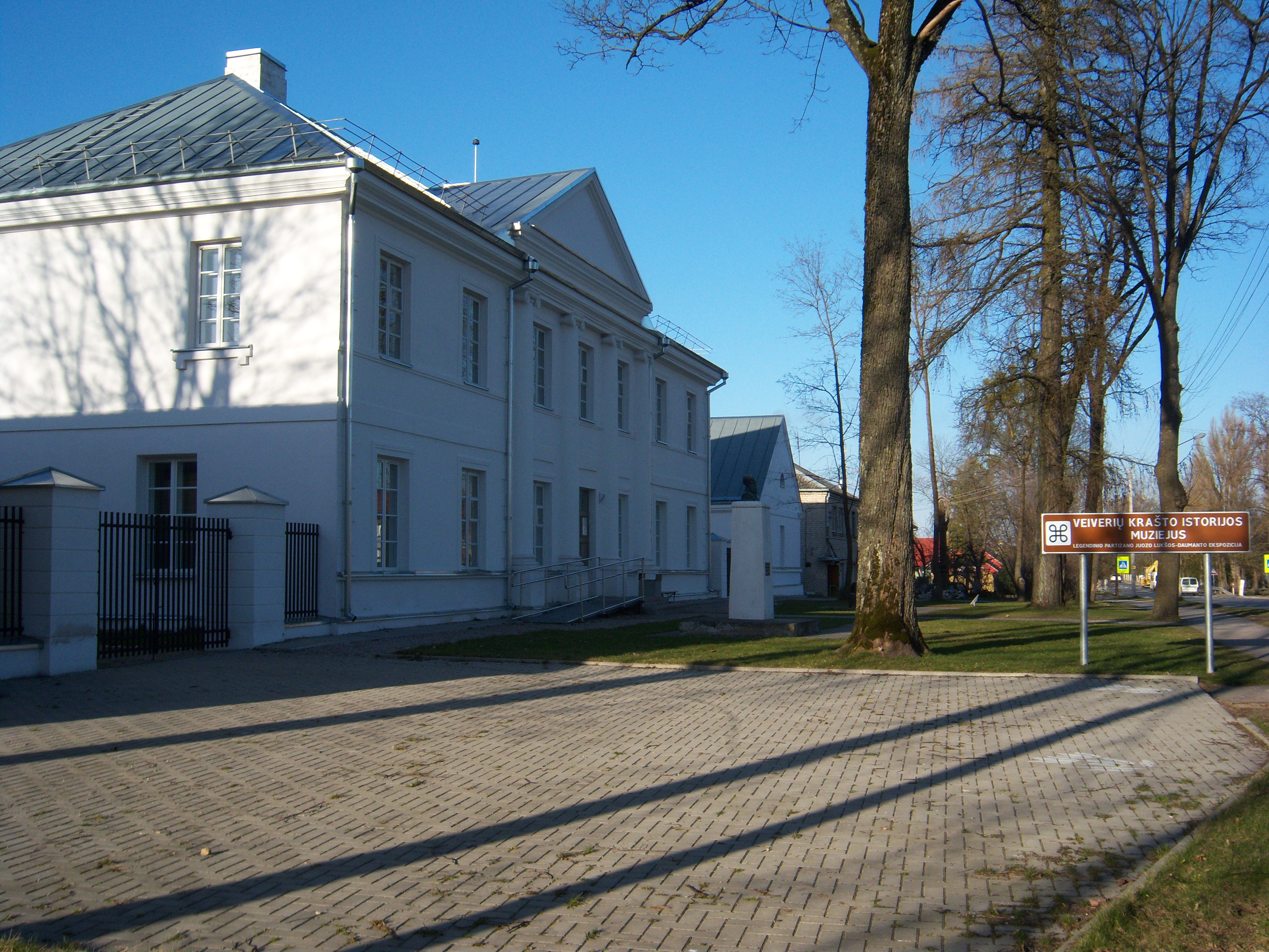 Antanas Kučingis arts school, Veiveriai, Lithuania